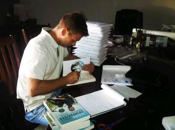 Eugene Cussons